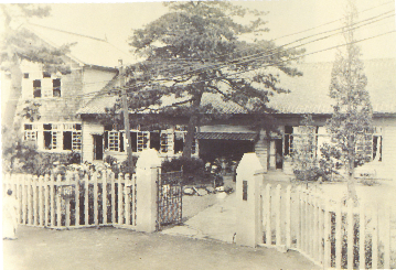 This is a Kindergarten of Tsuchiura in 1928 at Tsuchiura city, Ibaraki pref. Japan.